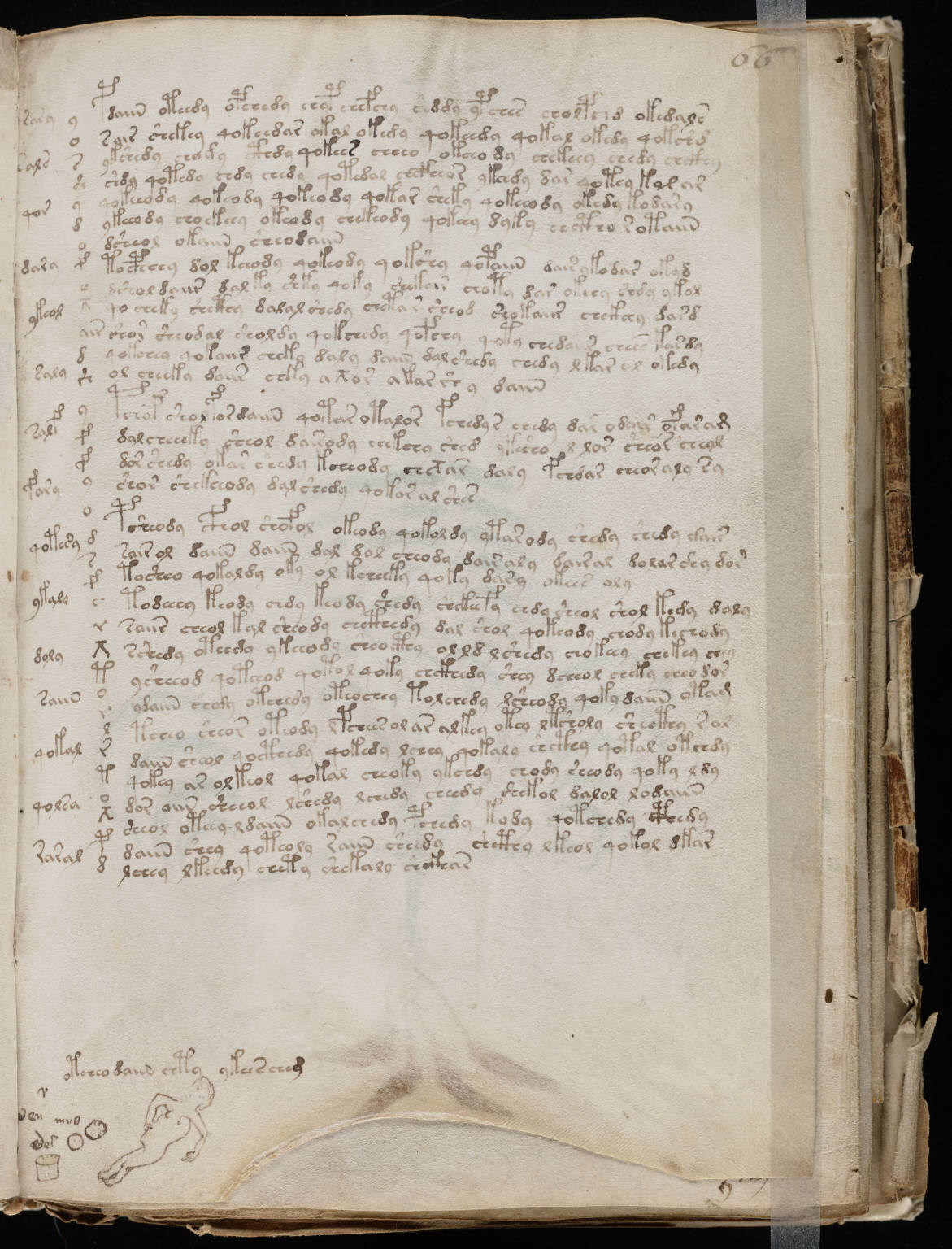 A page from the mysterious Voynich manuscript, which is undeciphered to this day.